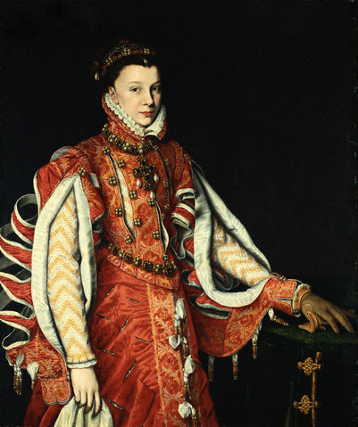 Portrait of Elisabeth of Valois (1545-1568)